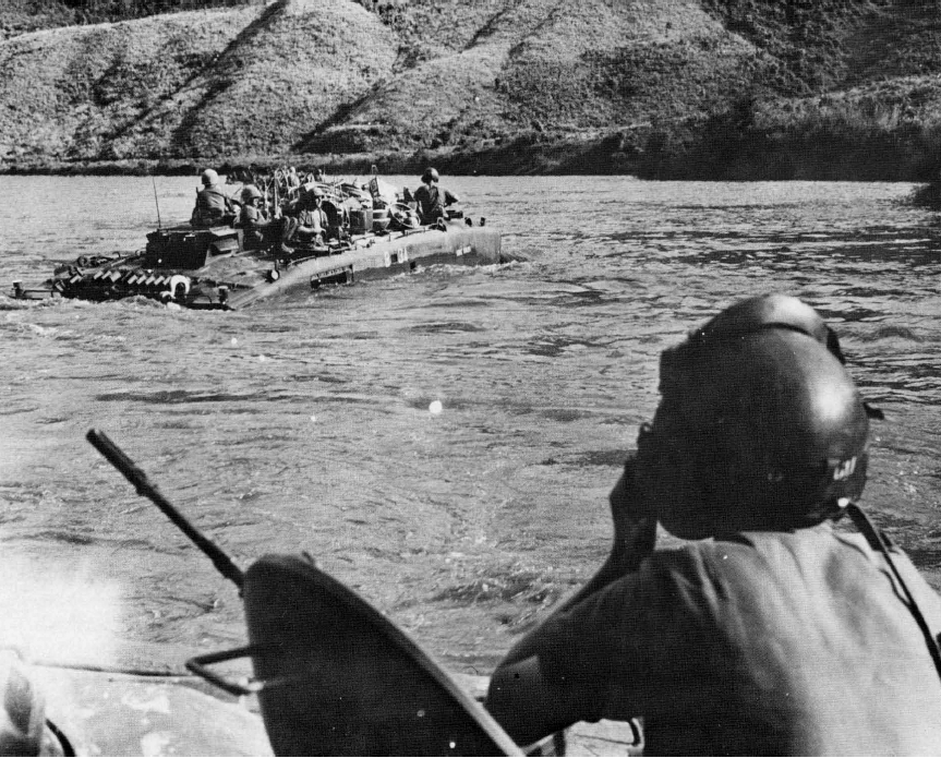 U.S. Marine Corps LVTP-5s from the 2nd Battalion, 3rd Marines cross the Cu De River.